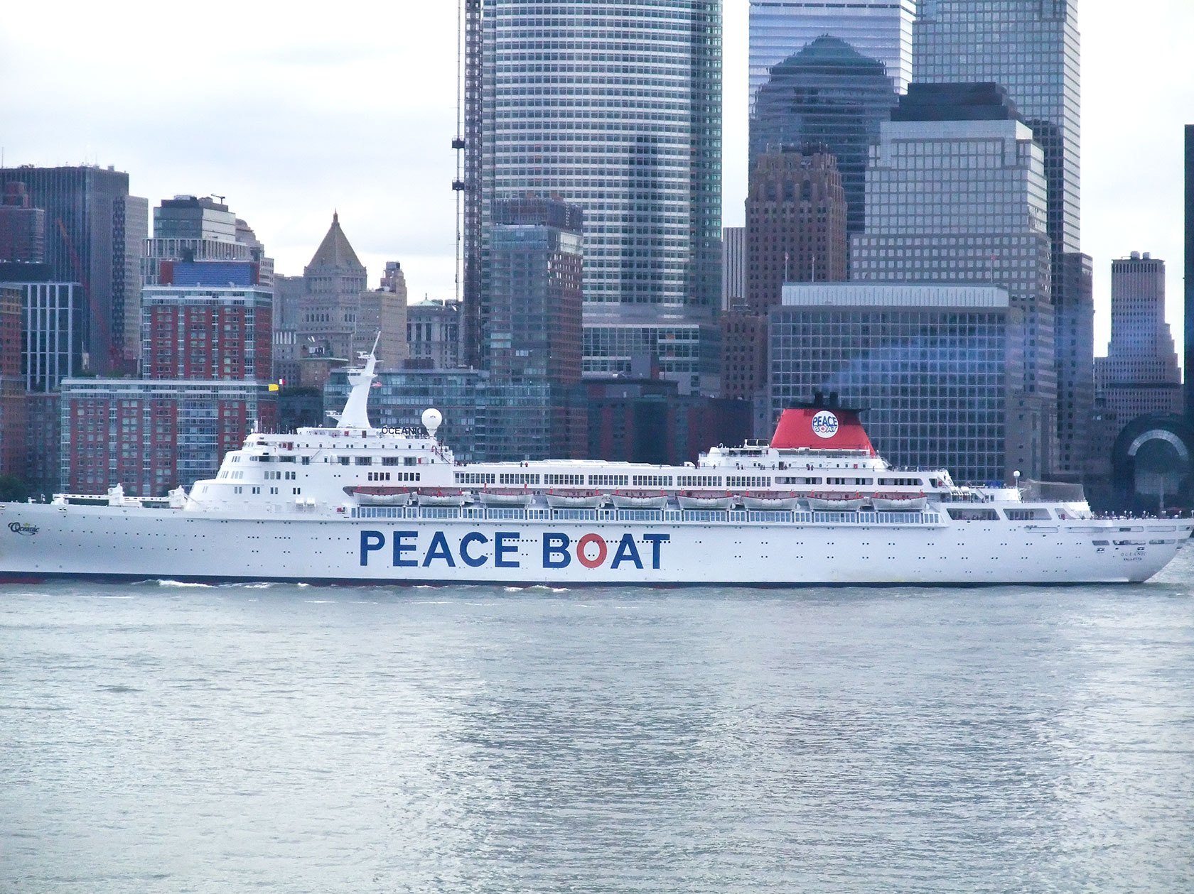 This boat labeled "Peace Boat" went by the window on Thursday. I had no idea what it was, but here's what I found on their web site: Peace Boat is a Japan-based international non-governmental and non-profit organization that works to promote peace, human rights, equal and sustainable development and respect for the environment. Peace Boat seeks to create awareness and action based on effecting positive social and political change in the world. We pursue this through the organization of global educational programmes, responsible travel, cooperative projects and advocacy activities. These activities are carried out on a partnership basis with other civil society organizations and communities in Japan, Northeast Asia, and around the world. Peace Boat carries out its main activities through a chartered passenger ship that travels the world on peace voyages. The ship creates a neutral, mobile space and enables people to engage across borders in dialogue and mutual cooperation at sea, and in the ports that we visit. Activities based on Japan and Northeast Asia are carried out from our eight Peace Centers in Japan.